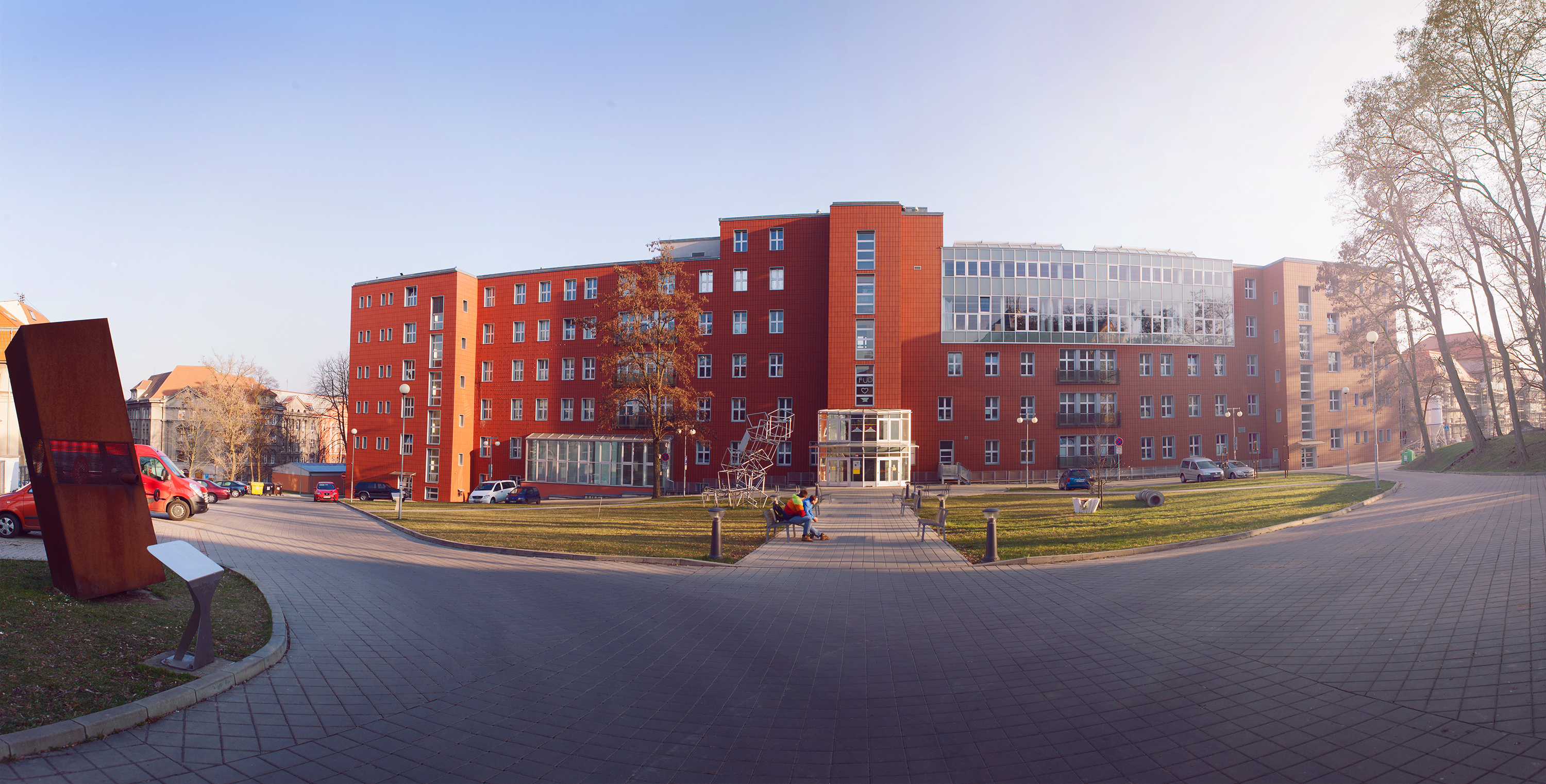 Building of the Faculty of Art and Design, Jan Evangelista Purkyně University in Ústí nad Labem, Czech republic